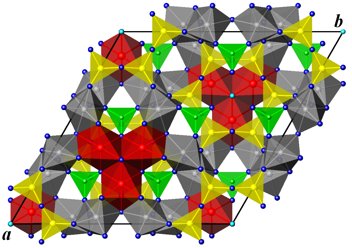 Crystal structure of schorl, NaFe3Al6(BO3)3(Si6O18)(OH)4, R3m, projected onto the (a,b) plane of the hexagonal cell. Red: iron, gray: aluminium, cyan: sodium, yellow: silicon, blue: oxygen, green: boron. The hydrogen atoms are not represented.